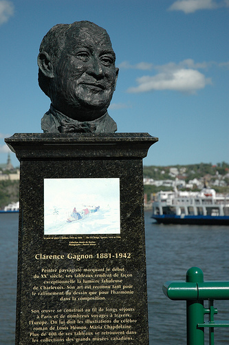 The bust of Québécois painter Clarence Gagnon in Quebec City.